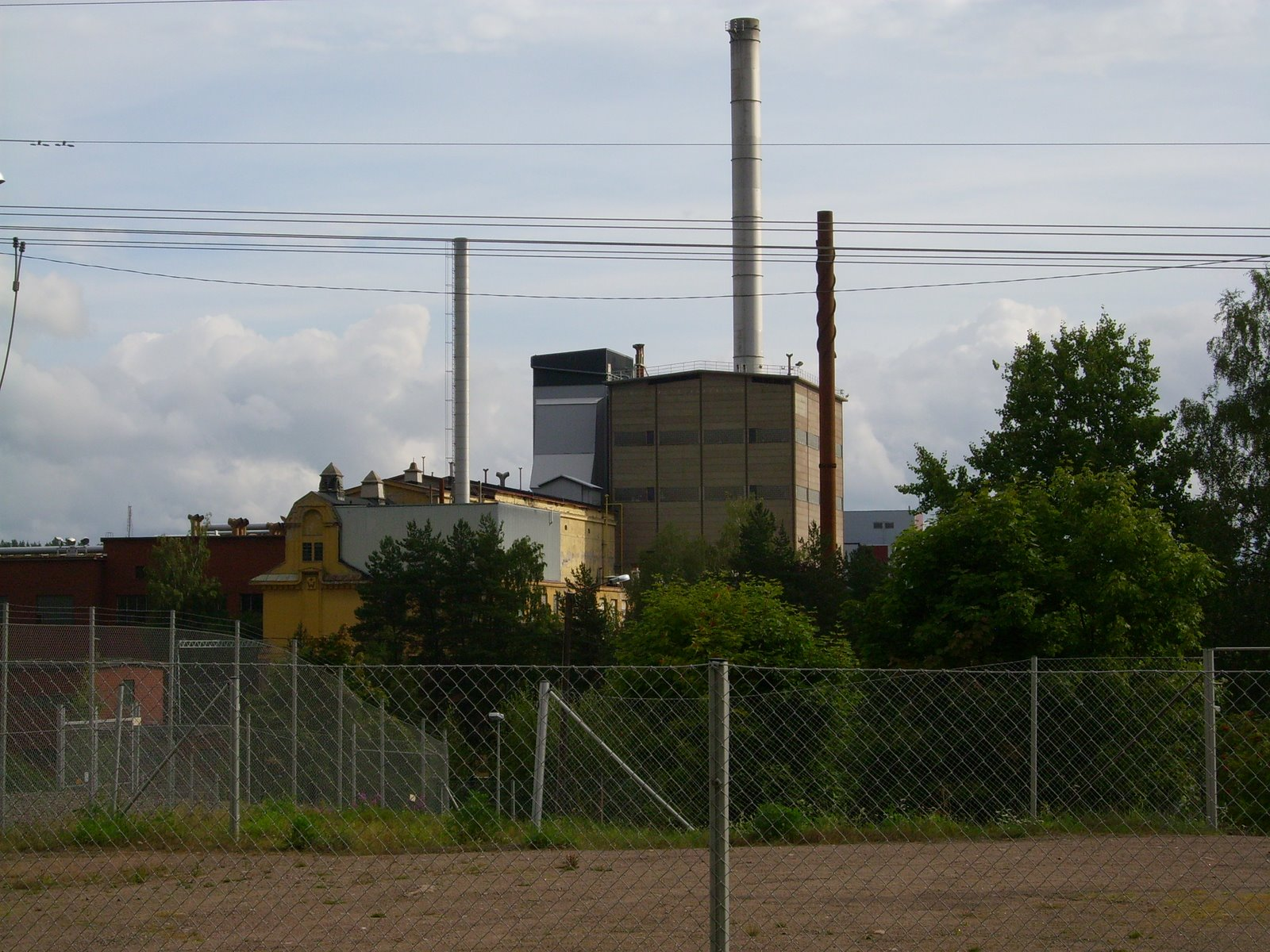 Voikkaa paper mill in Kuusankoski, Finland